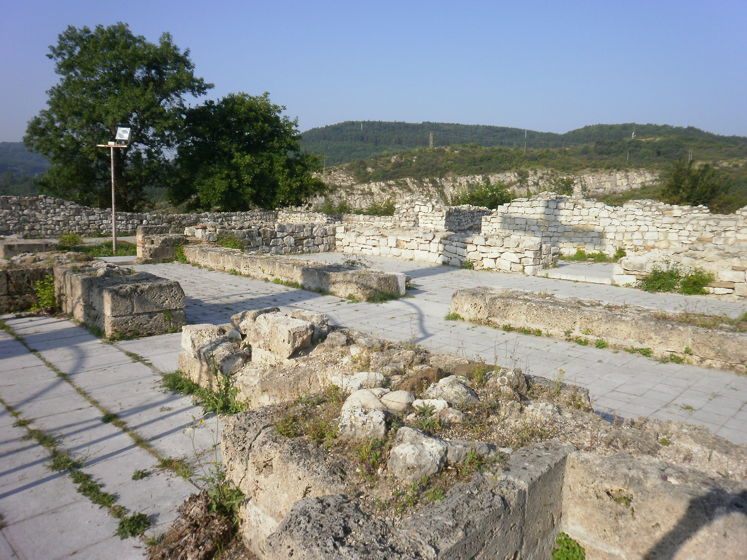 Hisarya, Lovech, Bulgaria.